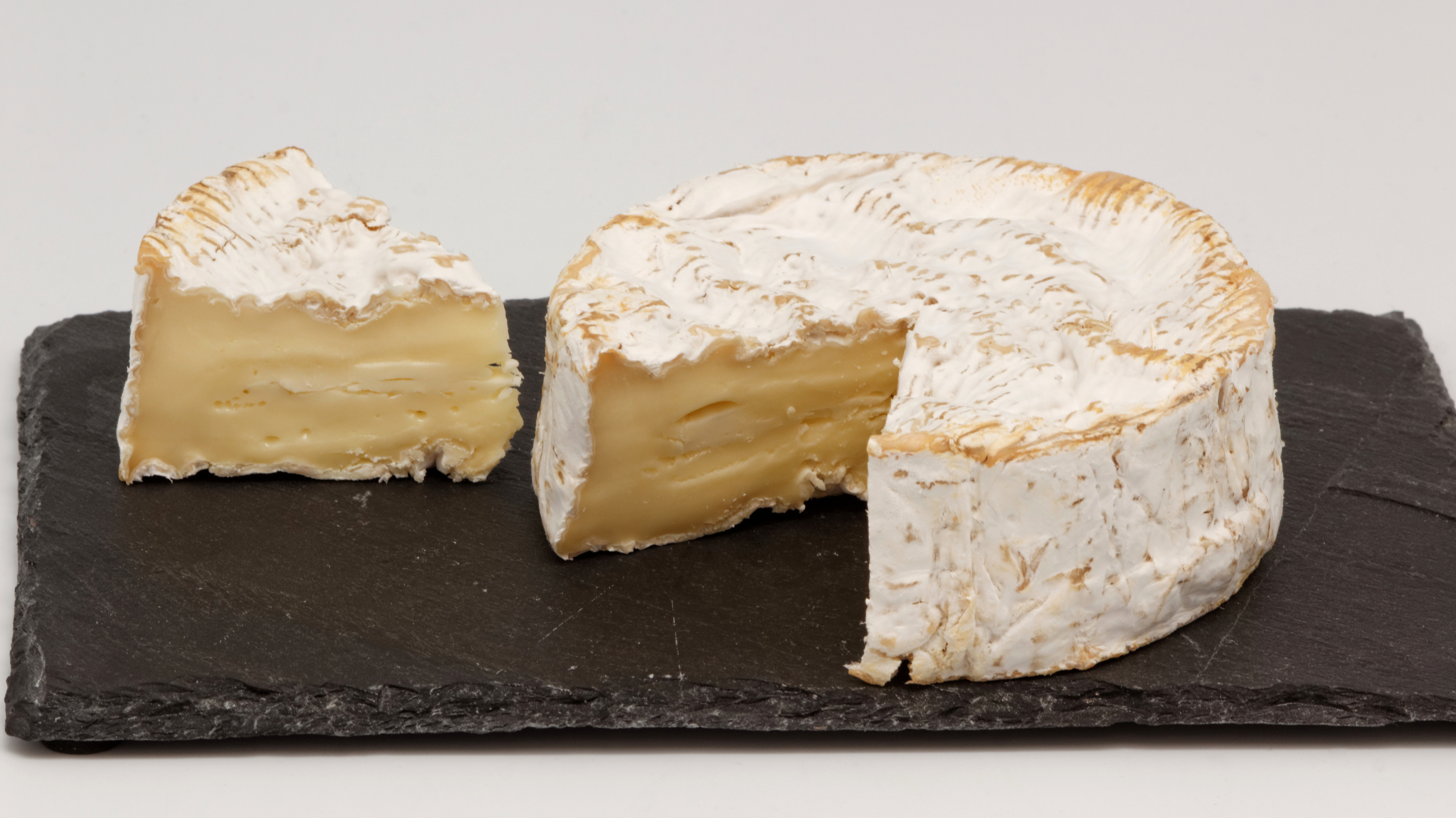 Camembert de Normandie (Protected Designation of Origin)